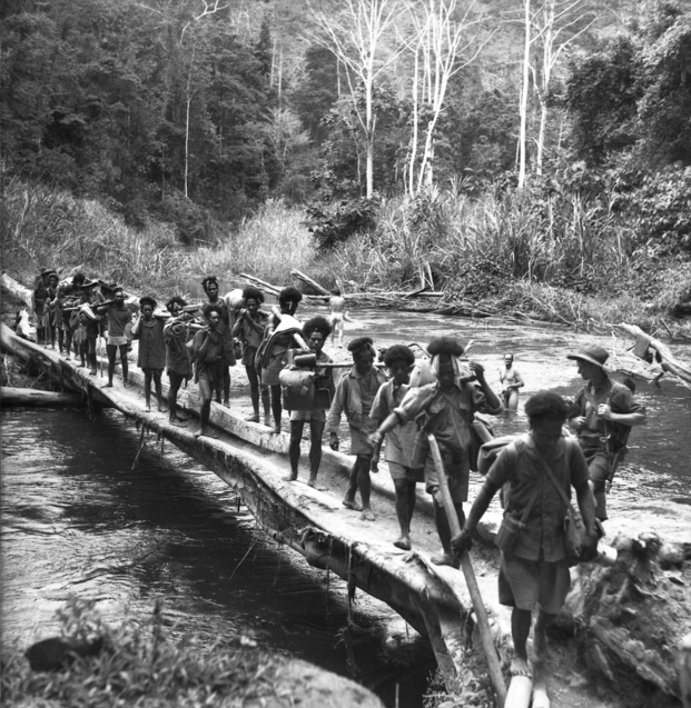 PAPUA, NEW GUINEA. 1942-10. TROOPS AND NATIVE CARRIERS CROSSING THE BROWN RIVER, BETWEEN NAURO AND MENARI, BY MEANS OF A HUGE LOG FALLEN ACROSS THE STREAM. NATIVE CARRIERS HAVE PROVED INVALUABLE AND HAVE CARRIED BESIDES FOOD SUPPLIES, AMMUNITION AND GUNS TO OUR FORWARD POSITIONS. THEIR WORK IN CARRYING OUT WOUNDED SOLDIERS SAVED MANY MEN FROM A LIKELY DEATH IN THE JUNGLE.